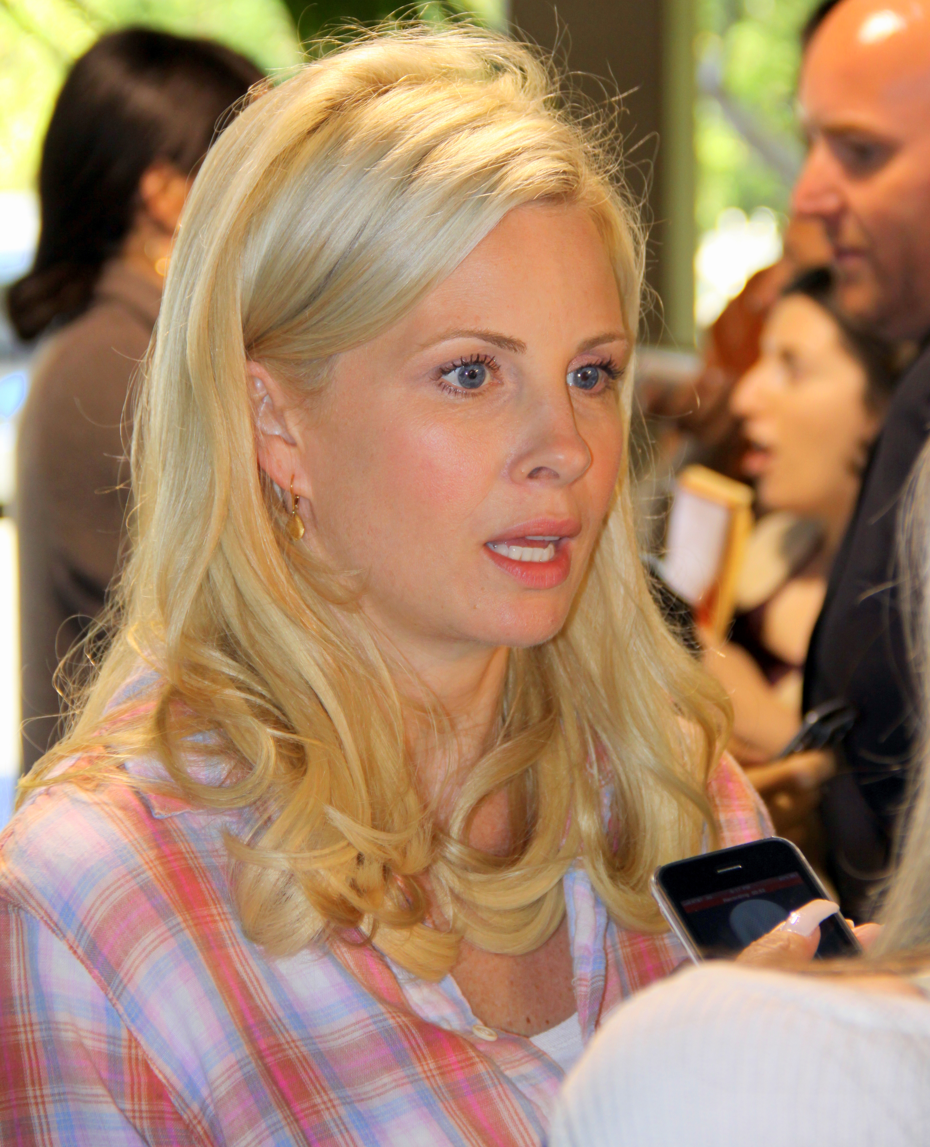 Actress Monica Potter at the Television Critics Association - Summer 2010.